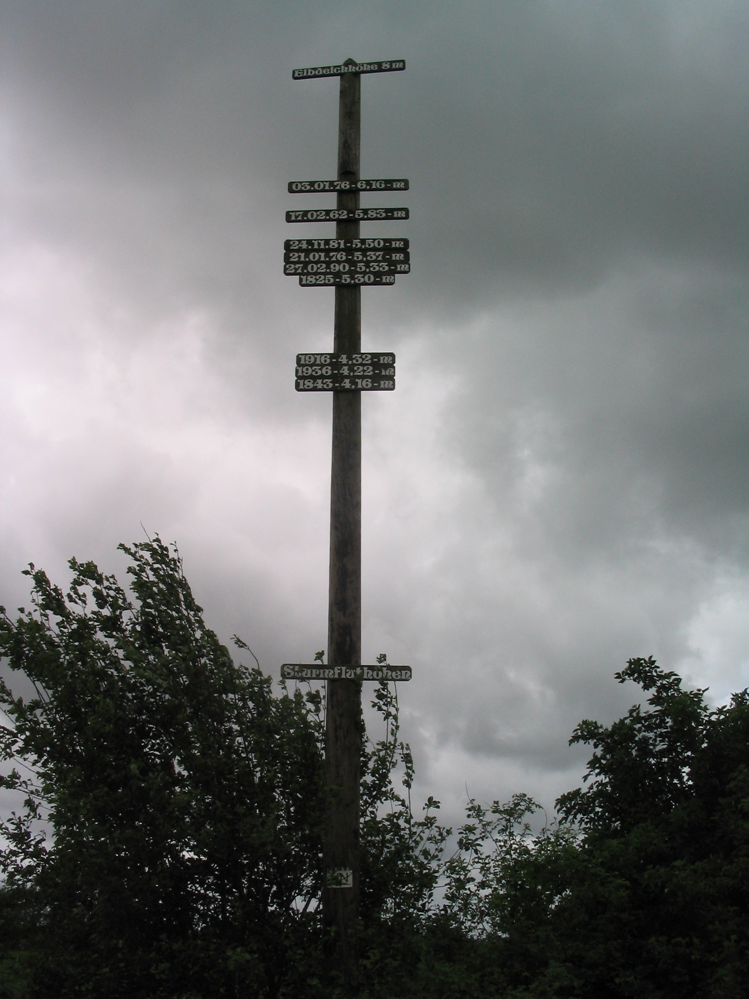 Sign with the flood standings at the lowest land point in Germany in the Wilstermarsch